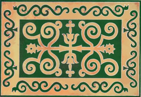 Vainakh istang carpet